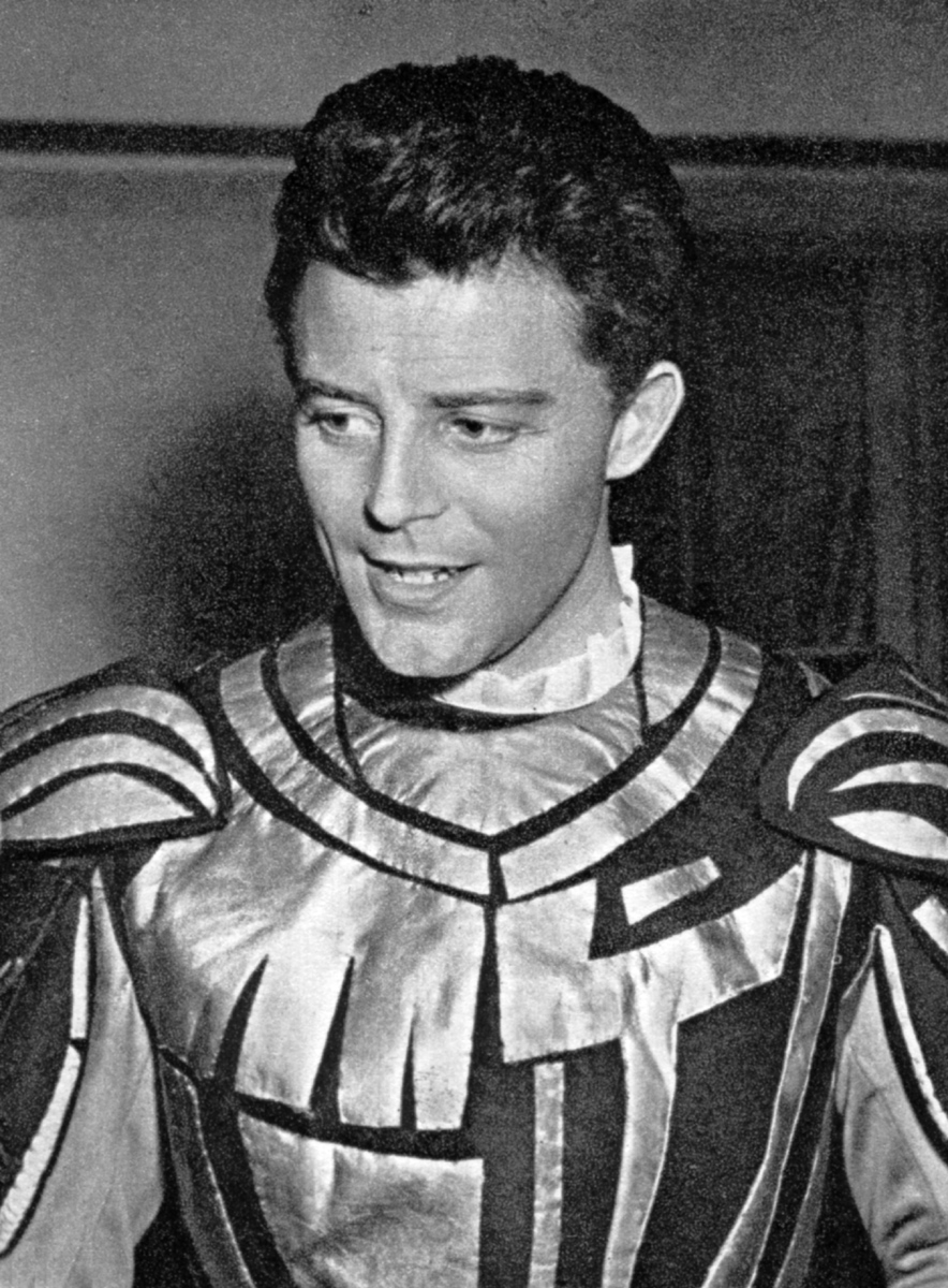 The French actor Gérard Philipe wearing the costume of Don Rodrigue in Le Cid by Pierre Corneille, during his visit in Warsaw in 1954.